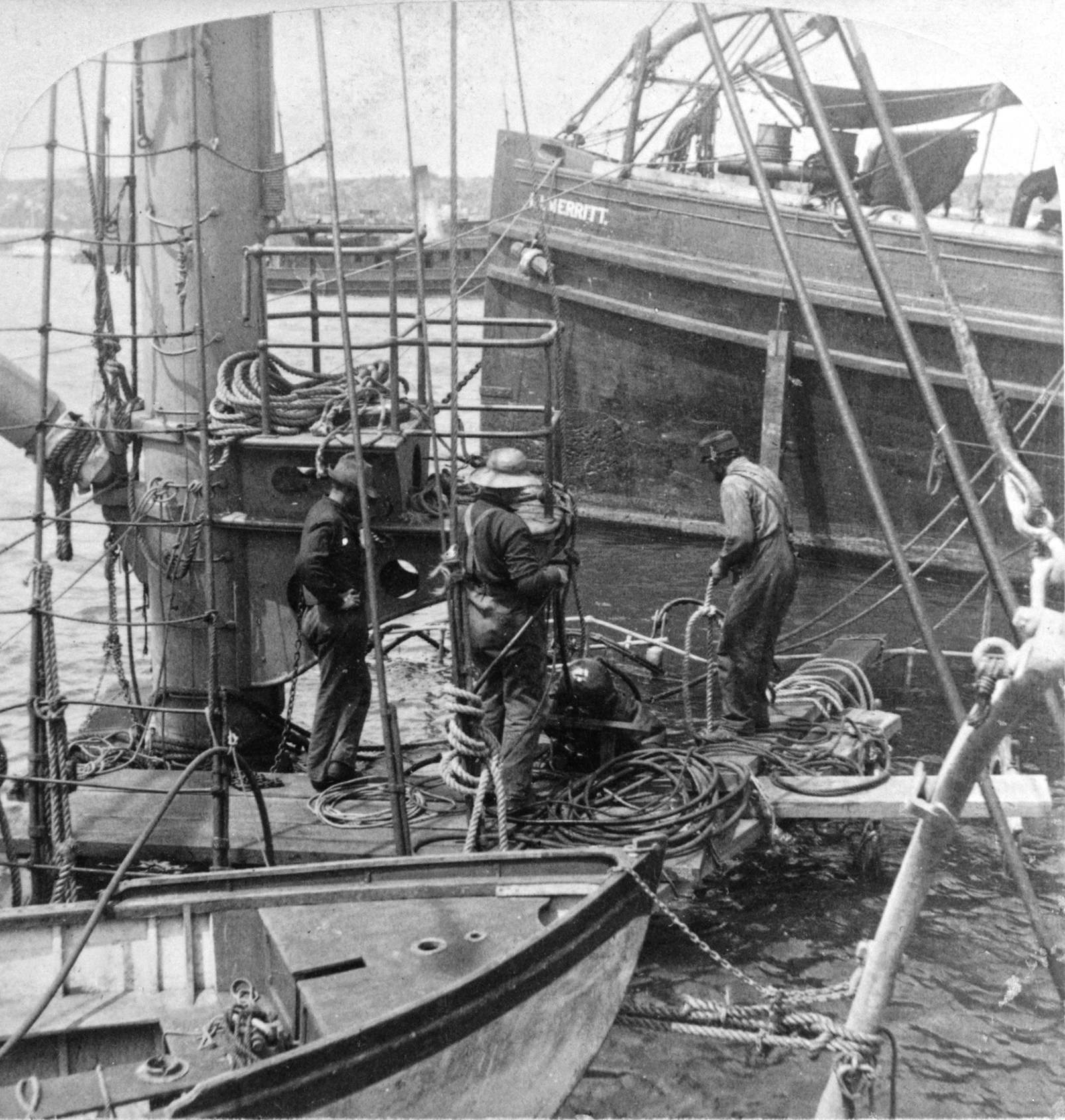 Divers at work on the wreck of the USS Maine in Havana Harbor, Cuba, in February or March of 1898.